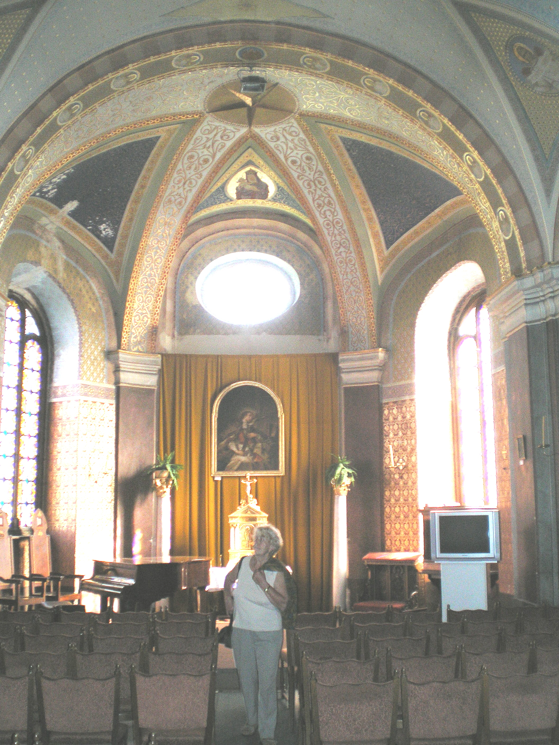 Chrast, the casle chapel